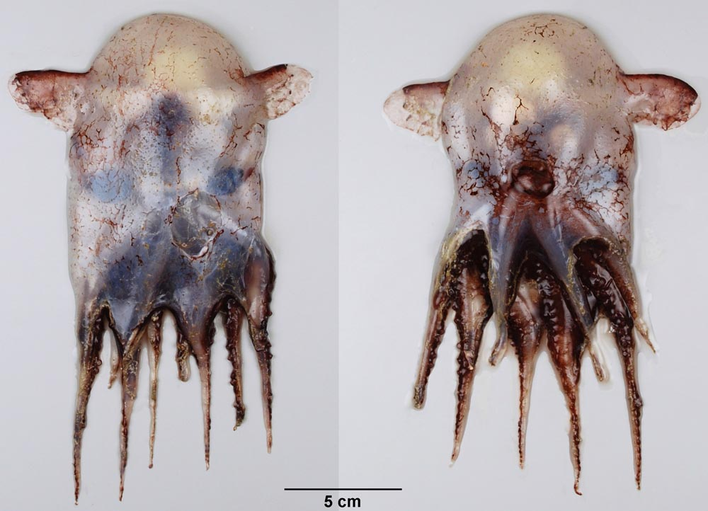 Grimpoteuthis innominata mature female (73 mm ML, 68 mm HW) from N.E. Chatham Rise off New Zealand, at 42°59'S, 179°45'E